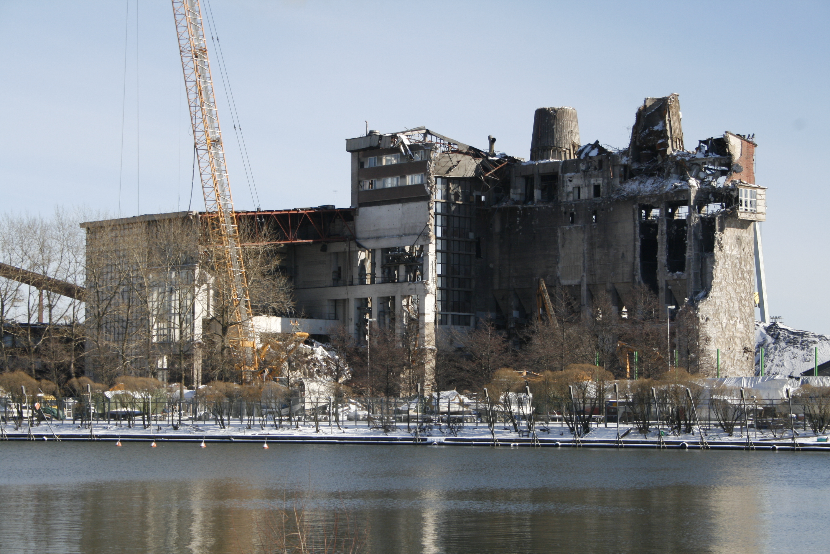 Hanasaari A coalpowerplant under demolition.